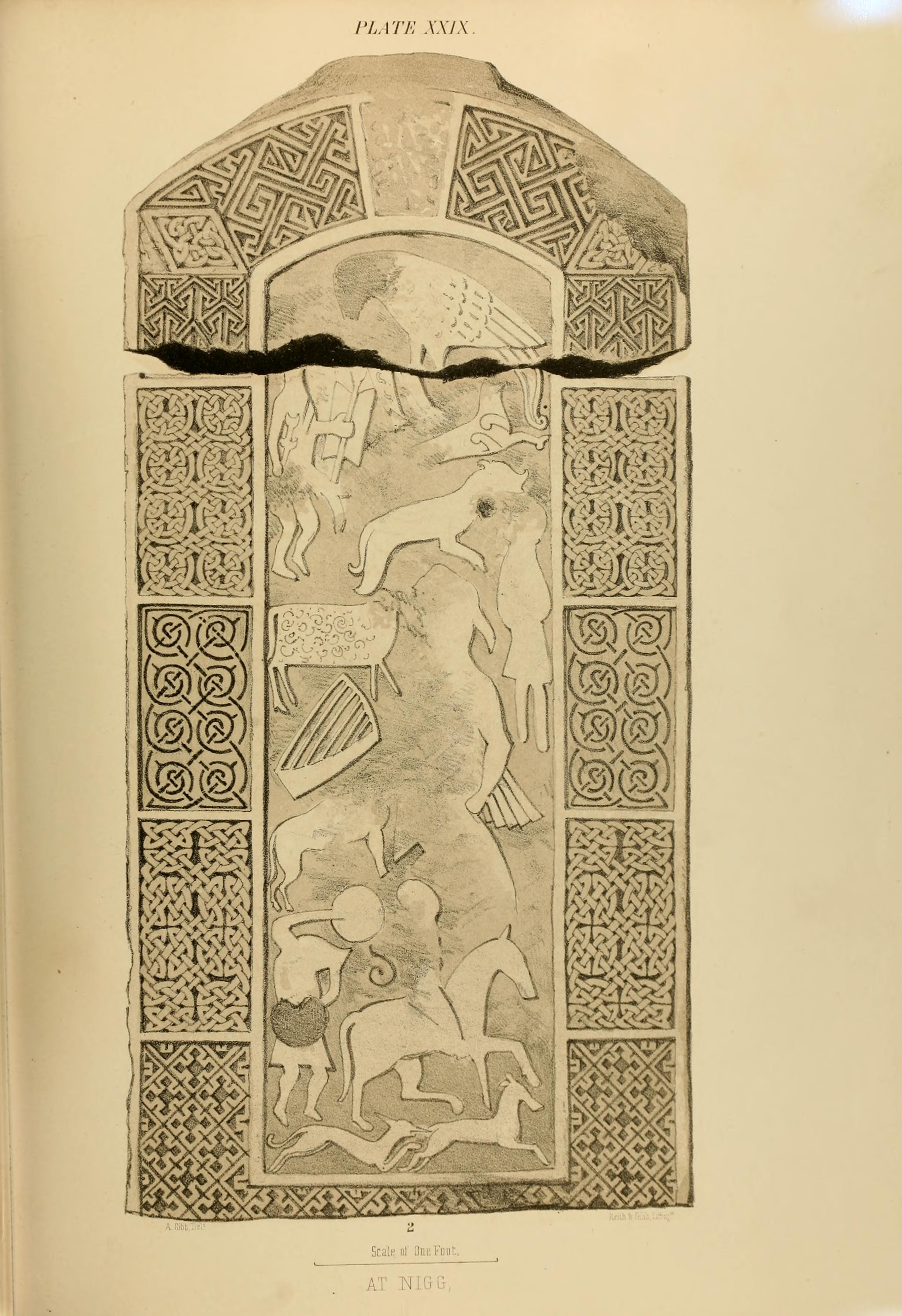 pictish Stone of Nigg, pictisch side